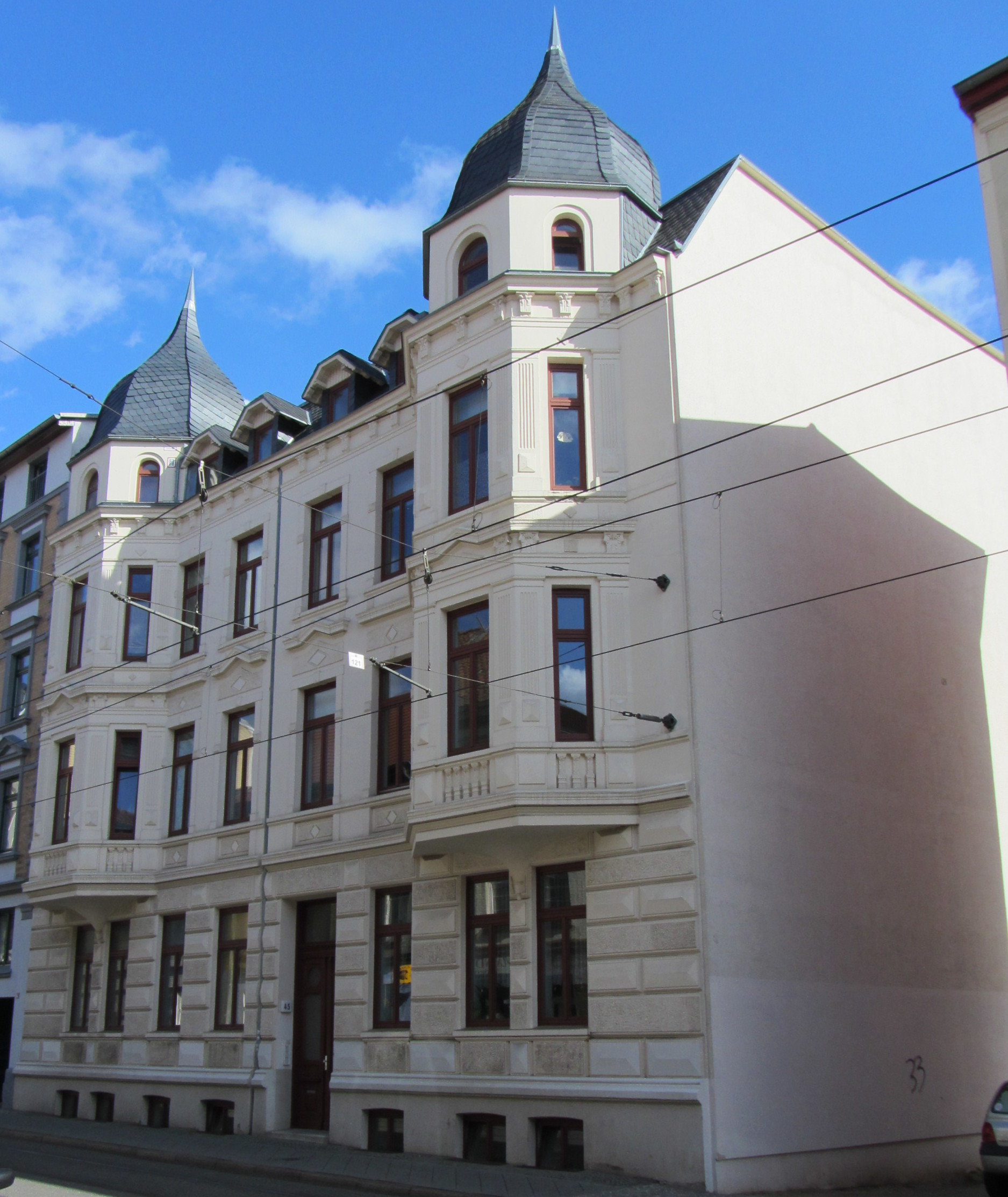 Goethestraße 45 in Schwerin, Mecklenburg-Vorpommern, Germany